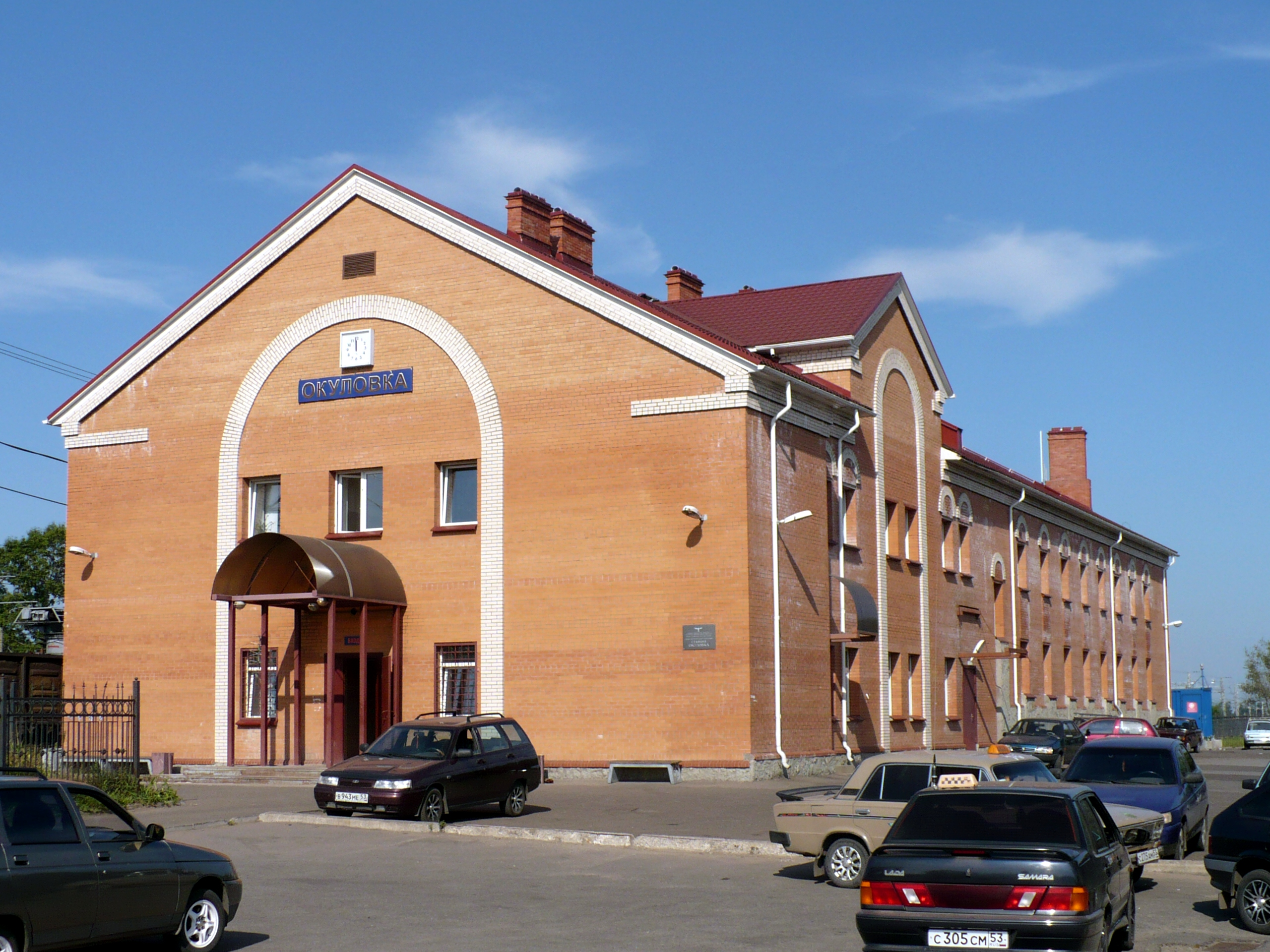 New railway station in Okulovka, Novgorodskaya Oblast, Russia